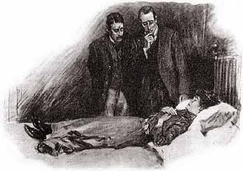 Arthur Conan Doyle, The Adventure of the Devil's Foot (1910), Illustration by Gilbert Holiday, in The Strand Magazine